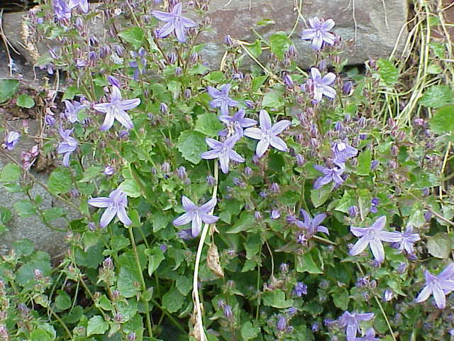 Species: Campanula poscharskyana (file name misleading because of wrong ID by original author) Family: Campanulaceae Image No. 3